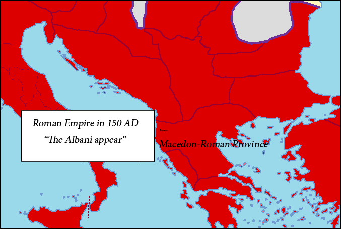 The location of the Albanoi tribe 150 AD in the Roman province of Macedon,Albanopolis may have been in the same location Data from Wilkes, J. J. The Illyrians, 1992,ISBN 0631198075 Base map from File:Roman Empire in 150 AD.png